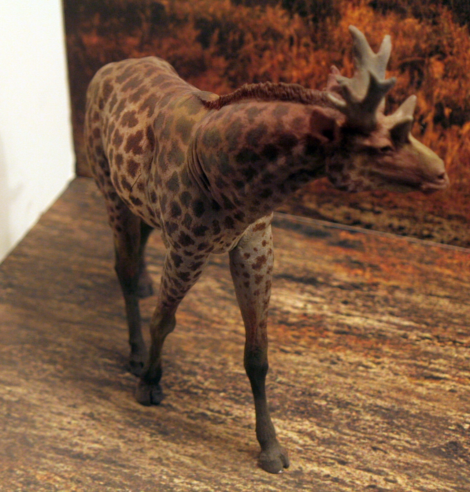 Sivatherium, Warsaw Museum of Evolution